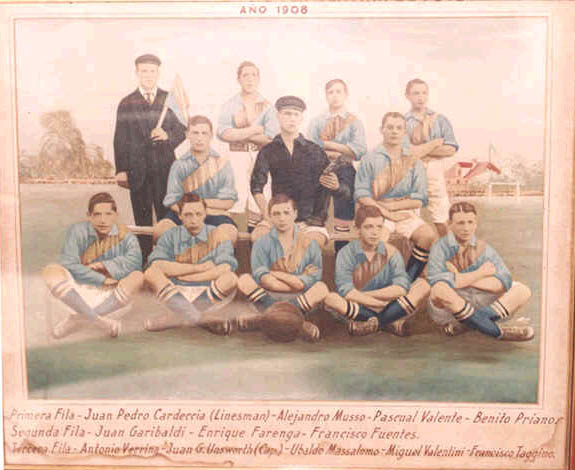 A Boca Juniors squad before posing before a match, when the club still played at the second division of Argentine football.